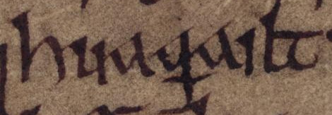 An excerpt from folio 20r of Bodleian Library MS Rawlinson B 503 (the Annals of Inisfallen). The excerpt refers to Ragnall mac Gofraid, King of the Isles (died 1004/1005).